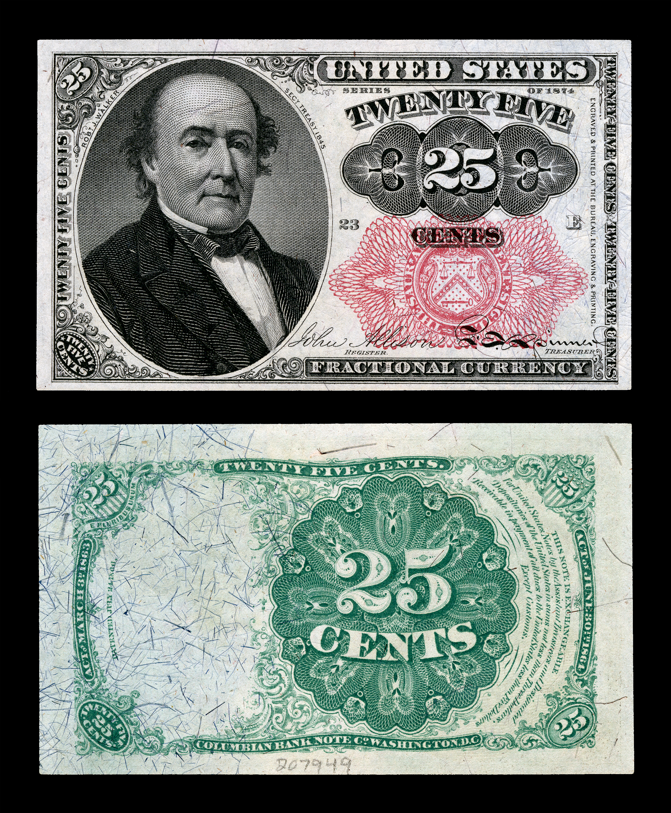 Fractional Currency was introduced by the United States Federal Government following the Civil War. These notes were in use between 21 August 1862 and 15 February 1876, and could be redeemed by the U.S. Postal Service for the face value in postage stamps. Fractional notes were issued in 3, 5, 10, 15, 25, and 50 cent denominations.